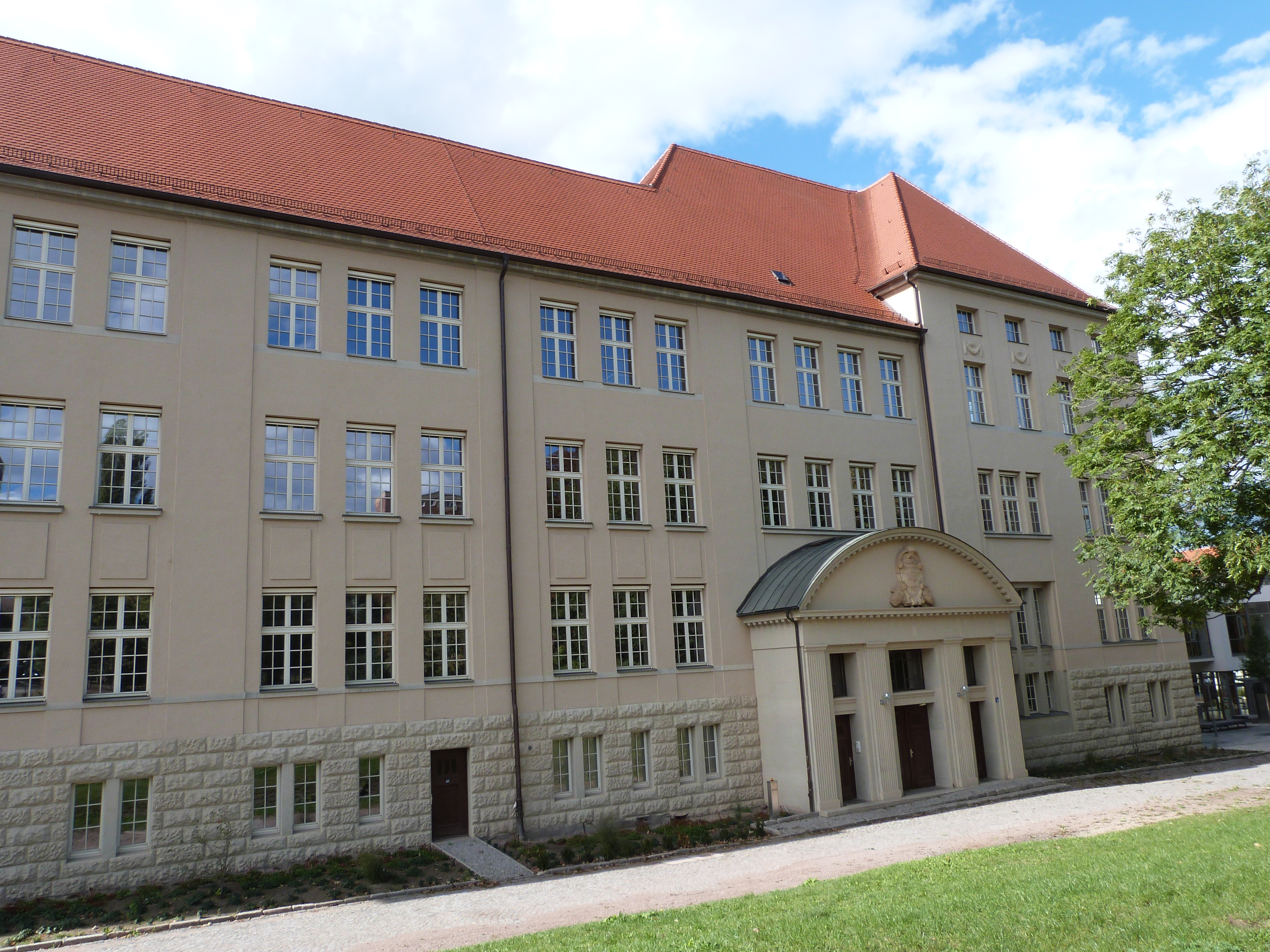 Latina August Hermann Francke (school), Halle (Saale), House 43